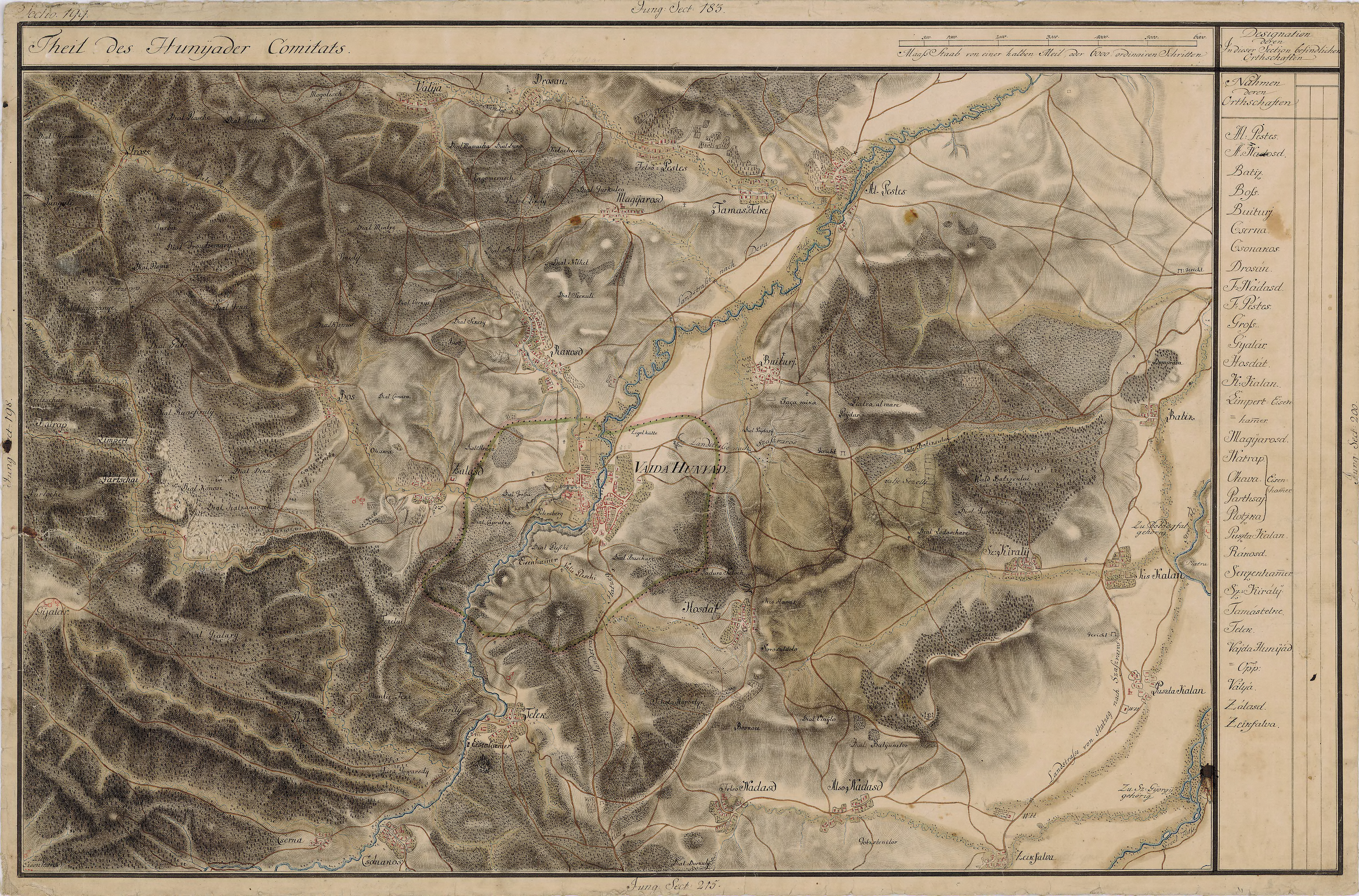 Grand Duchy of Transylvania, 1769-1773. Josephinische Landaufnahme pg.199